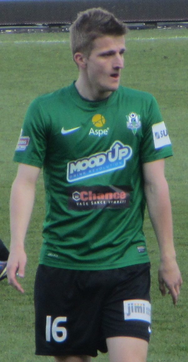 Jan Pázler of FK Baumit Jablonec during a match against his former club, FK Dukla Praha